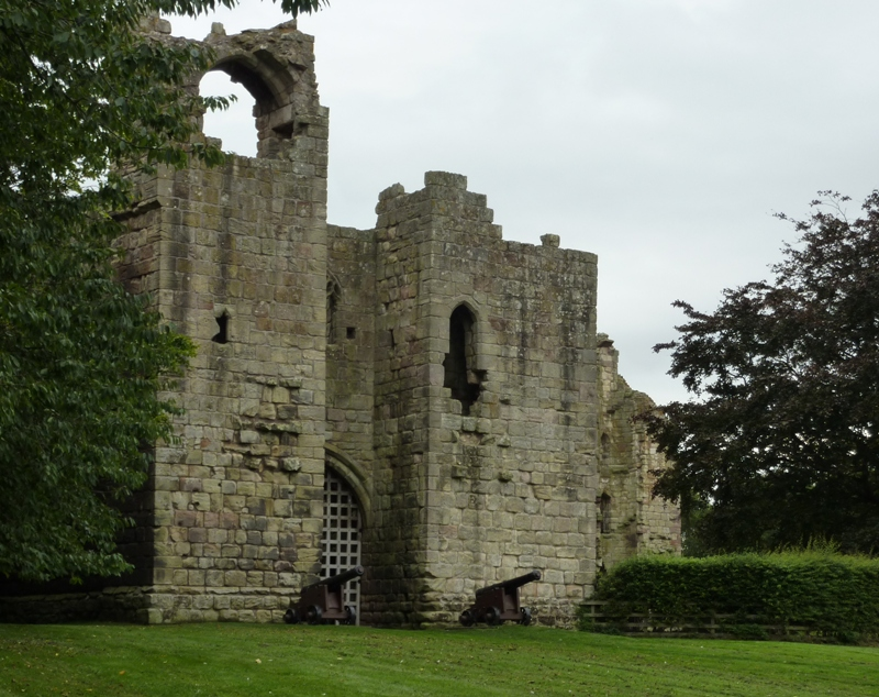 Etal Castle, Northumberland, England. Gatehouse viewed from the east.